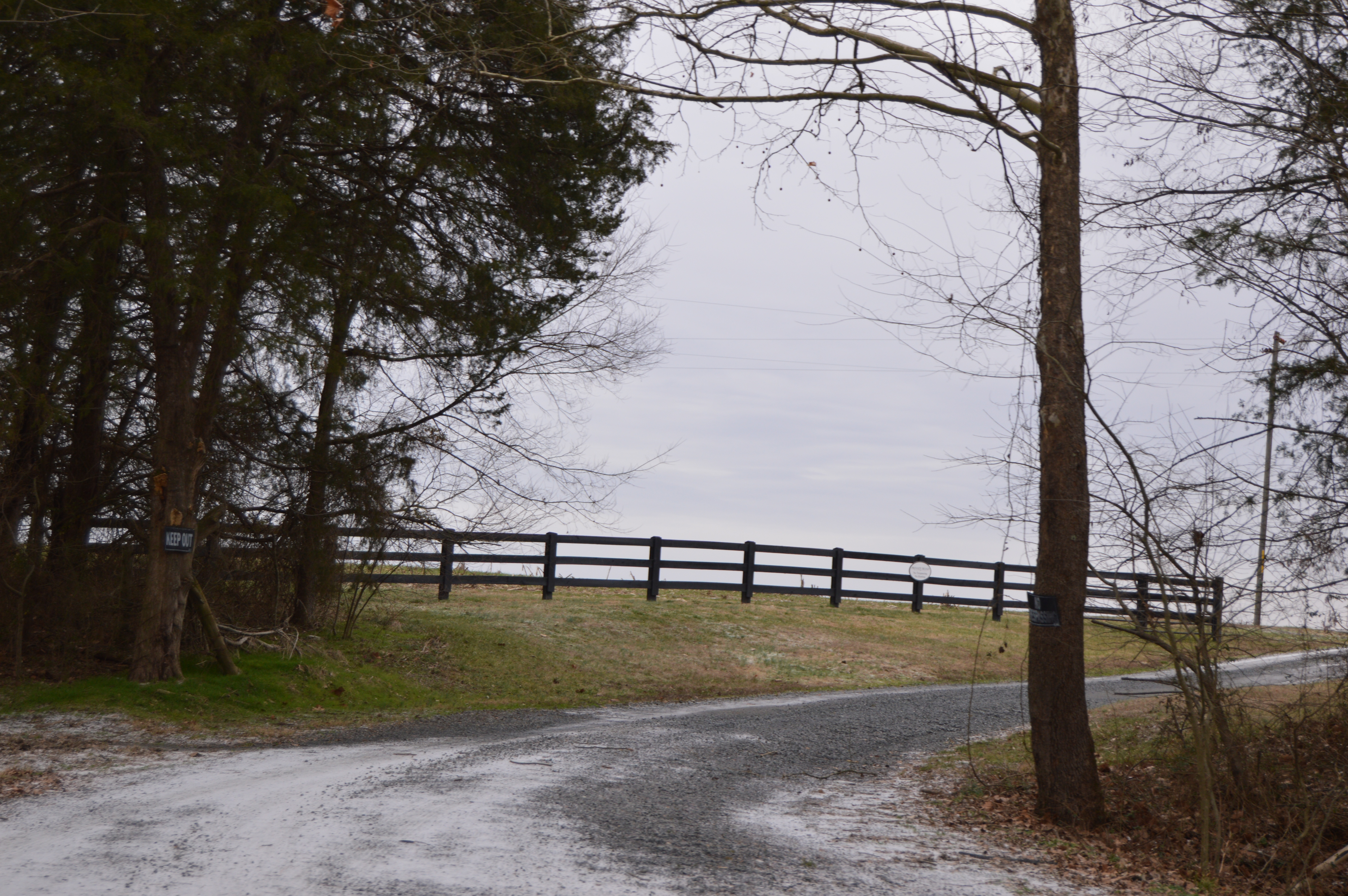 Entrance to the Greenville property, located off the Algonquin Trail in southeastern Culpeper County, Virginia, United States. The estate is listed on the National Register of Historic Places.